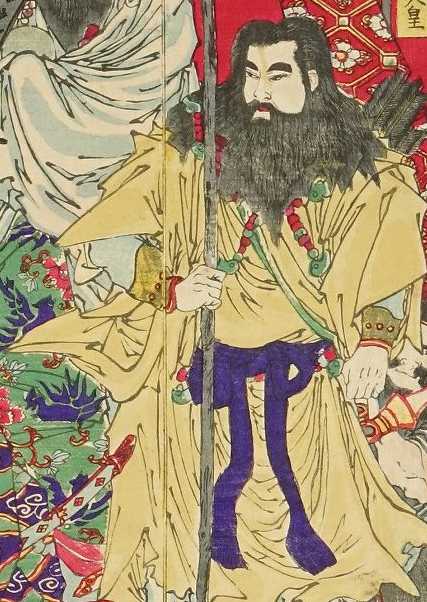 cropped image of first Japanese emperor from File:Meiji-tenno among kami and emperors.JPG